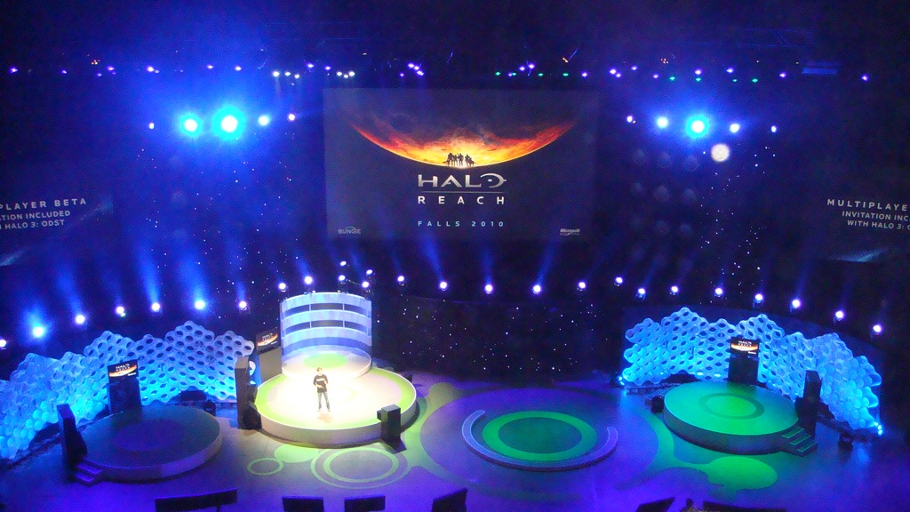 The world premiere of the shooter video game Halo: Reach at the Electronic Entertainment Expo 2009 Microsoft briefing, held at the Los Angeles Convention Center, June 1.